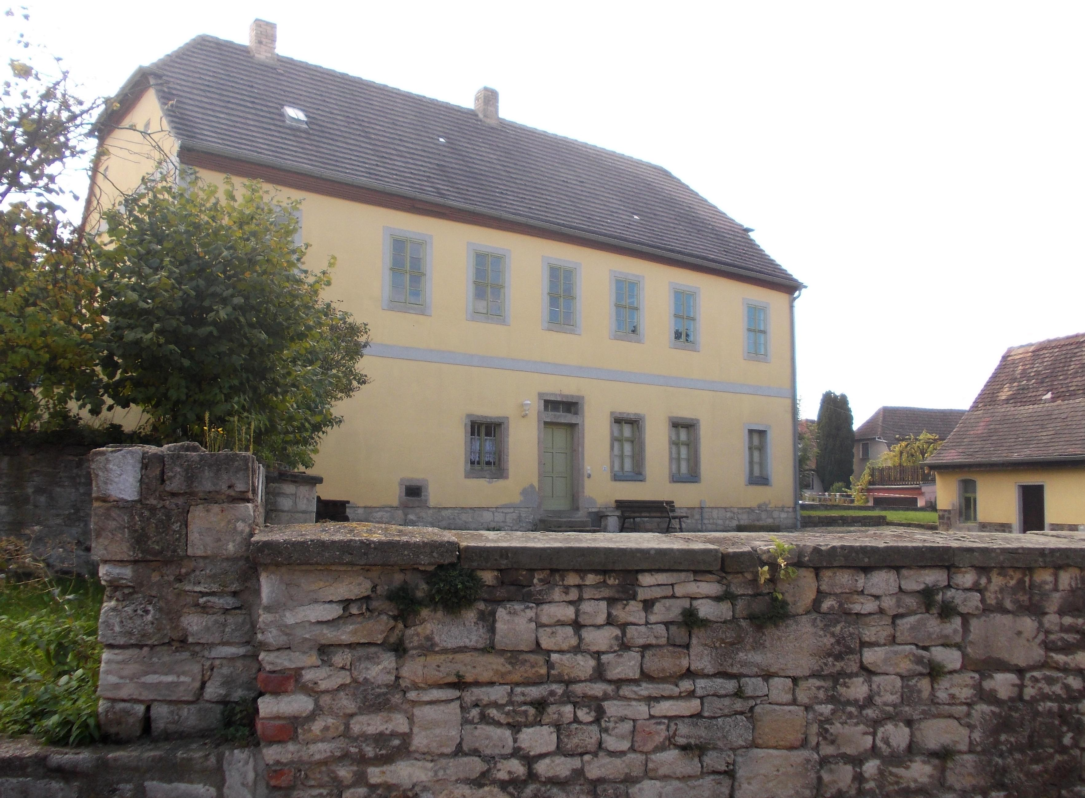 Rectory in Hassenhausen (Naumburg, district: Burgenlandkreis, Saxony-Anhalt)